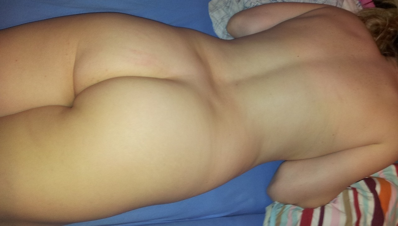 Female backside